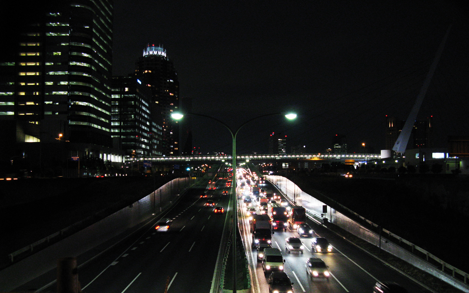 Wangan Line, Shuto Expressway